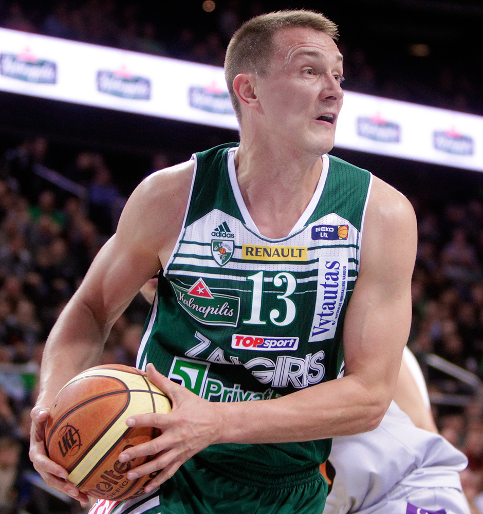 Lithuanian basketball player Paulius Jankunas